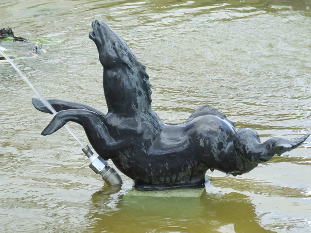 Globe fountain detail. One of the six kelpies (mythical sea horses) which spray the globe with water. See also 894647.